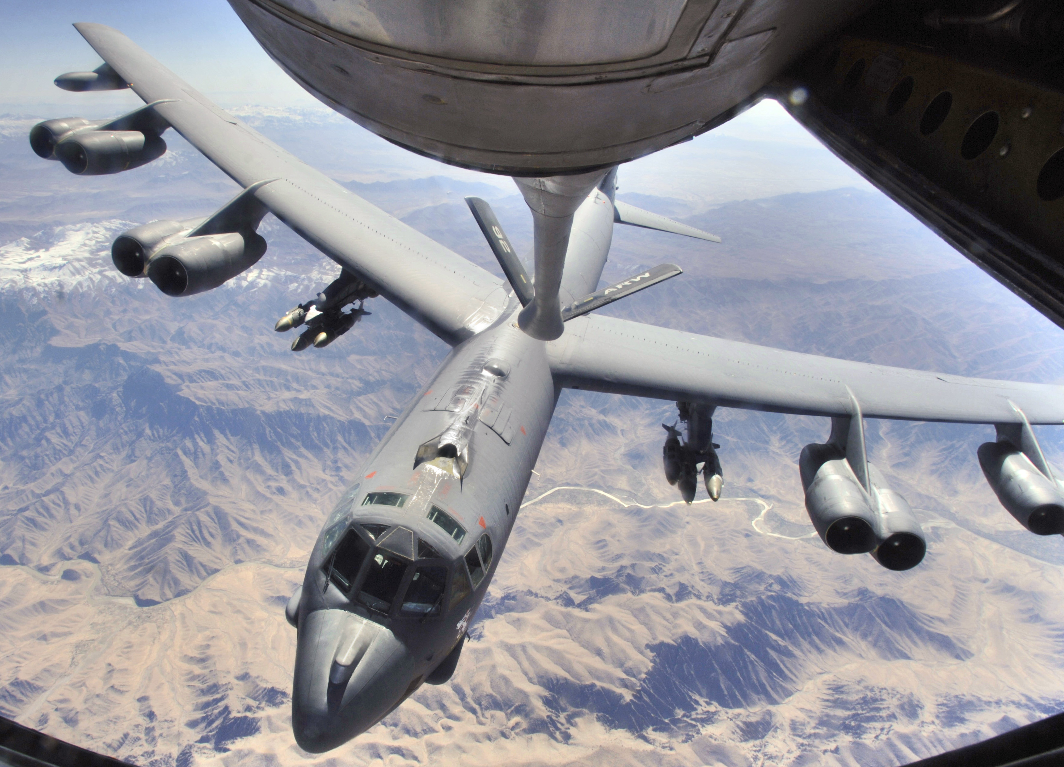 A B-52H from the 2nd Bomb Wing backs out after receiving fuel from a KC-135 Stratotanker over Afghanistan.